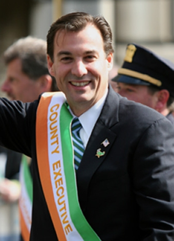 This is an image of Nassau County (NY) Executive Thomas Suozzi. This image was made during the New York City St. Patrick's Day Parade by Robert Swanson on March 17, 2005